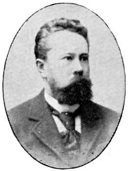 Image scanned from the book "Svenskt Porträttgalleri XX - Arkitekter, Bildhuggare, Målare m.fl. " ("Swedish Portrait Gallery XX - Architects, Sculptors, Painters, ") published 1901